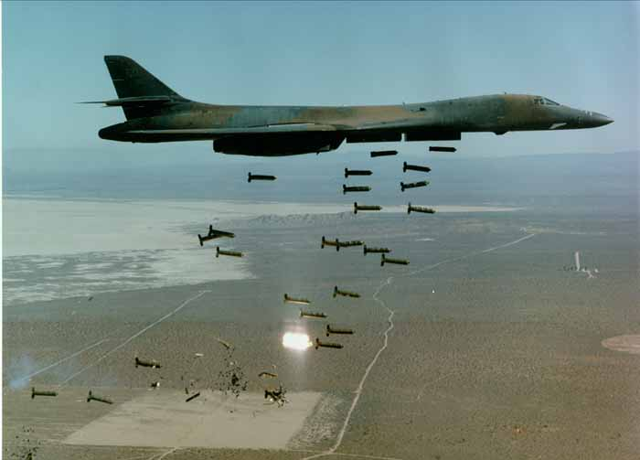 USAF B-1 Bomber dropping 30 CBUs (Cluster bombs).